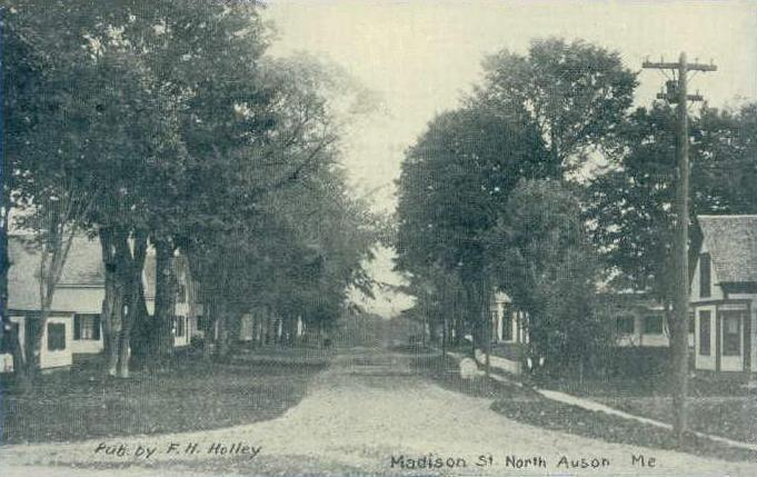 Madison Street, North Anson, ME; from a 1909 postcard published by F. H. Holley.